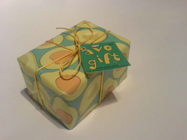 A gift wrapped in yellow and green paper.